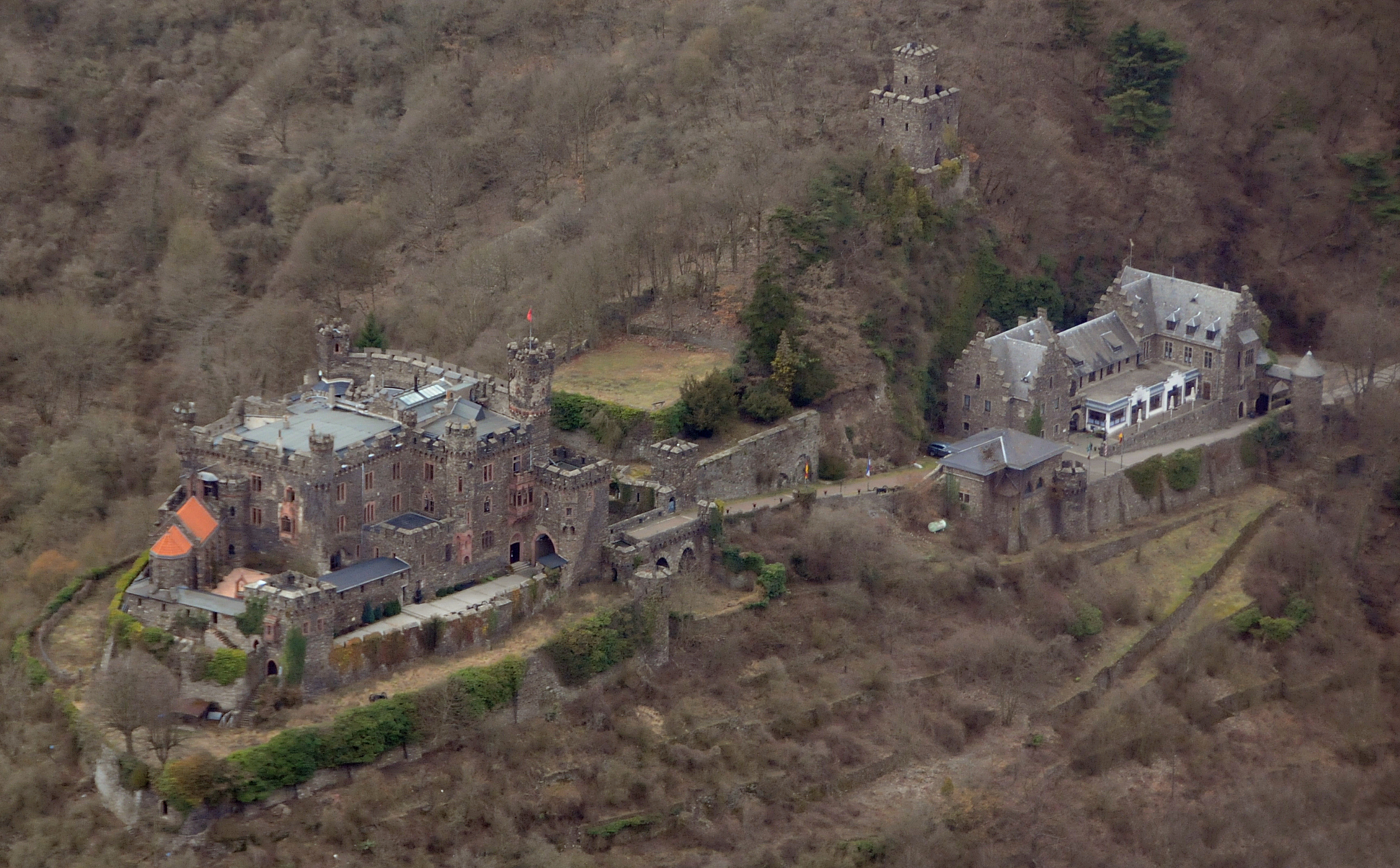 Aerial photograph of Reichenstein Castle